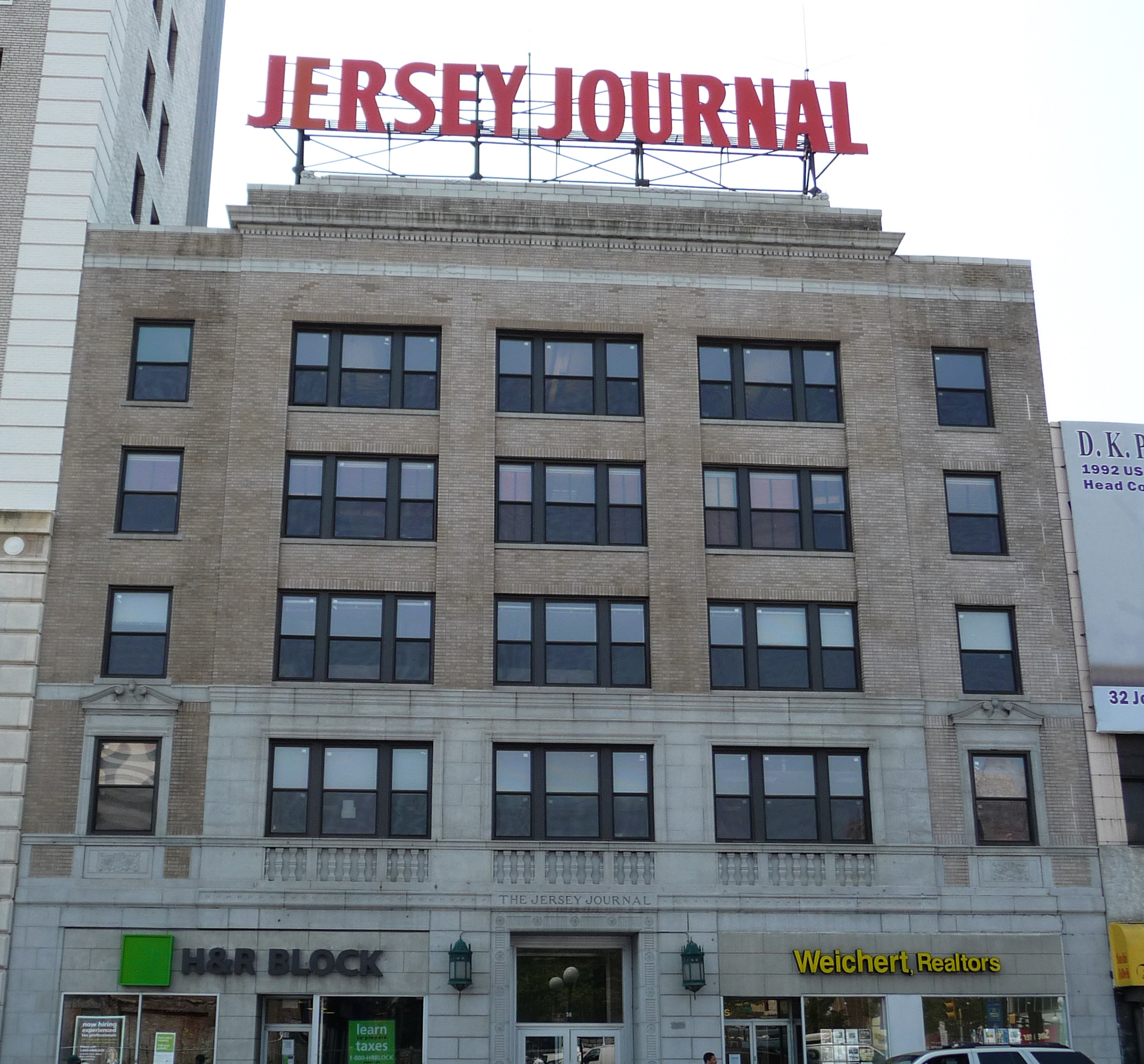 Looking south across Sipp Avenue at headquarters building of The Jersey Journal at 30 Journal Square, Jersey City, New Jersey, USA